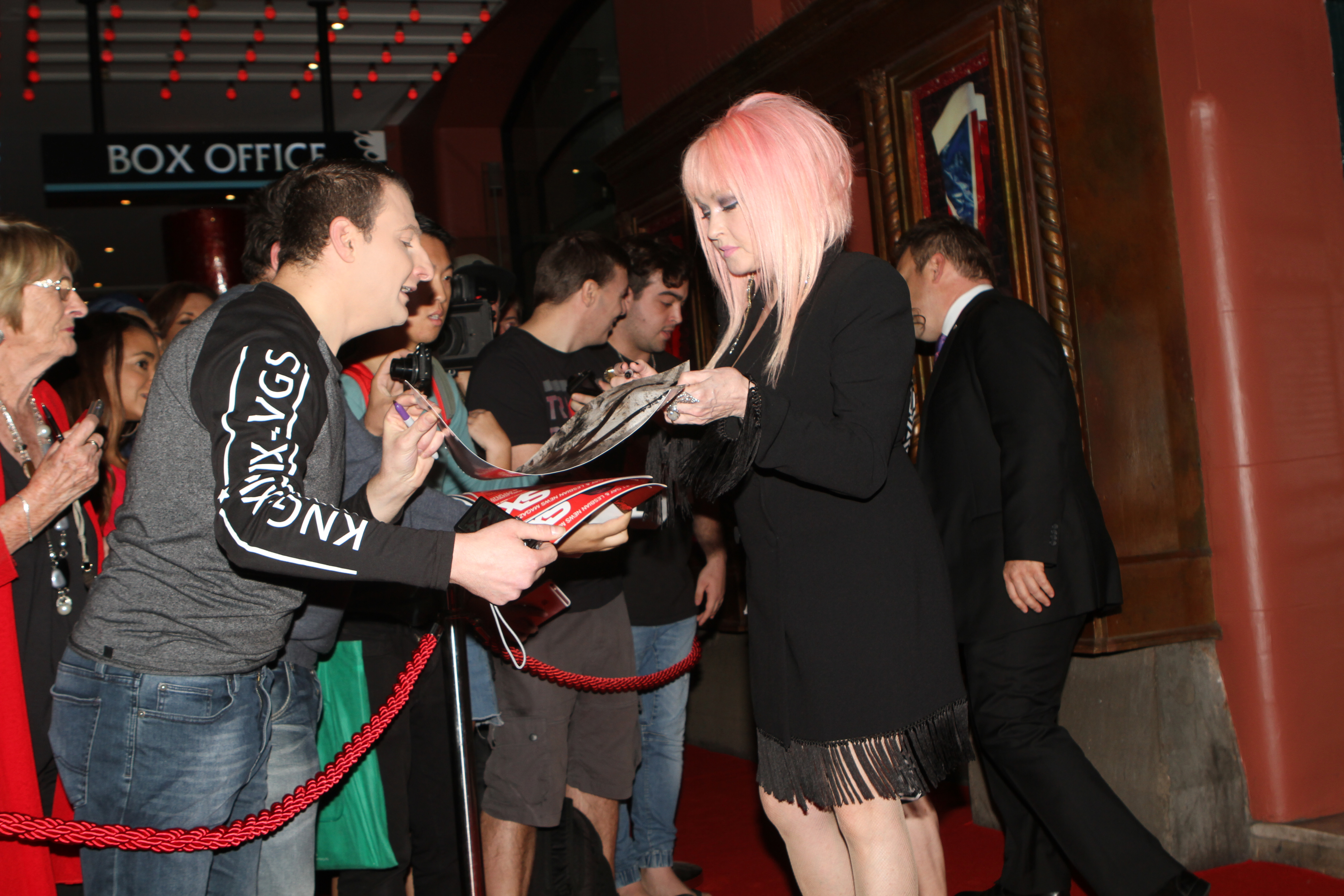 Cindy Lauper - Kinky Boots Red Carpet Premiere - Capitol Theatre, Sydney Australia (19 avril 2017).